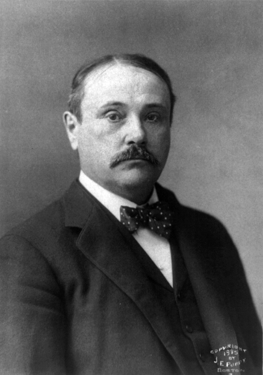 Henry Wade Rogers, judge of the United States Court of Appeals for the Second Circuit from 1913 to 1926